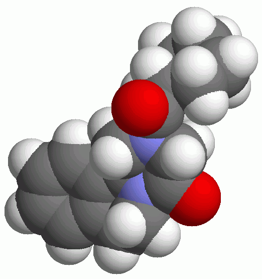 space-filling model of praziquantel